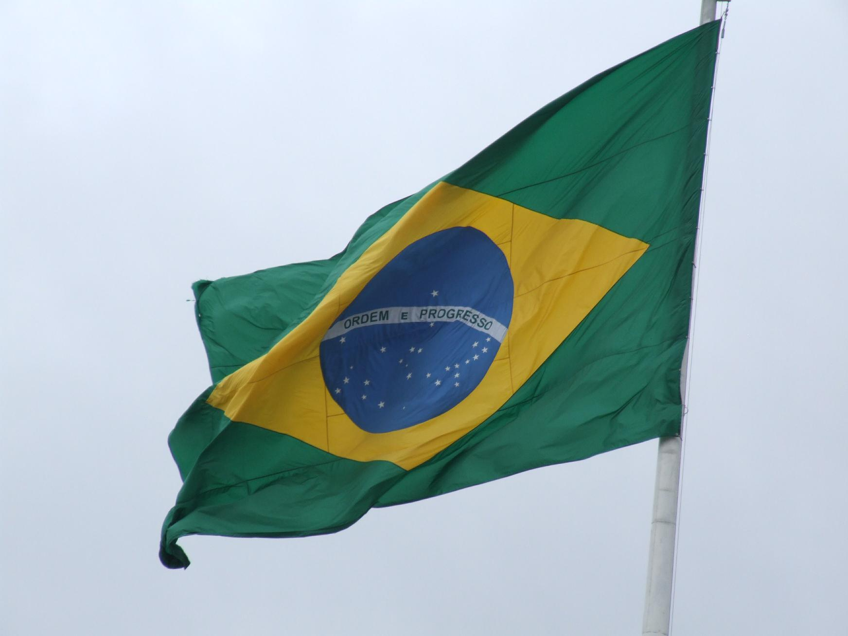 Flag of Brazil hoisted at the Iguaçu Palace, in Curitiba, Paraná, Brazil.